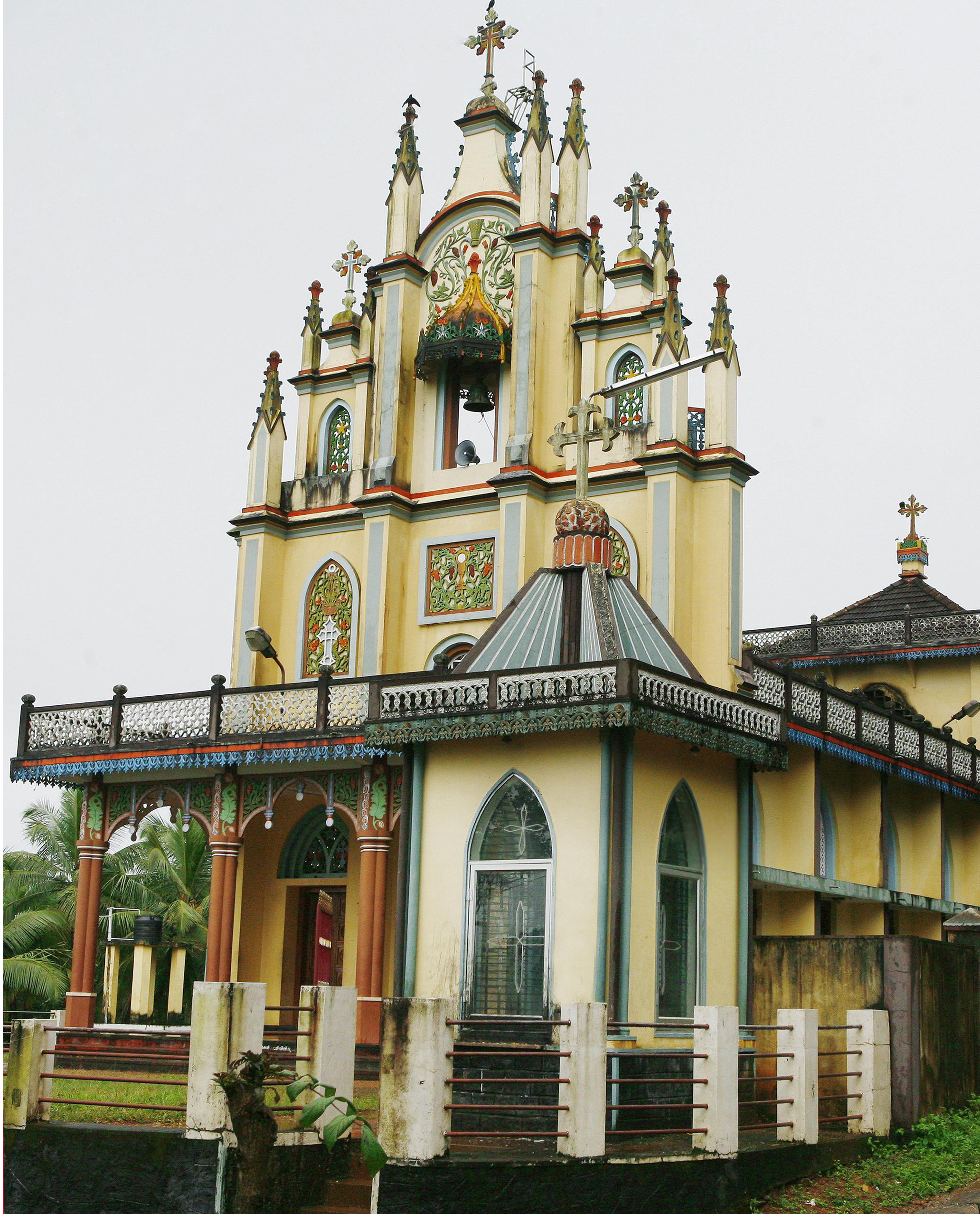 Situated in Aringada ward in Thalavoor Panchayat